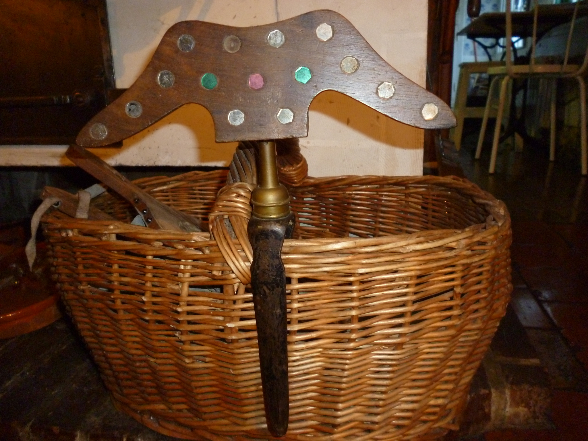 A mirror used to hunt larks (Alauda arvensis) in France. The device turns around and reflects the sunlight, thus attracting larks. Hunting with these mirrors is illegal nowadays if the mirrors have reflecting glasspieces on them. A "miroir aux alouettes" without a mirror would be allowed, but useless.